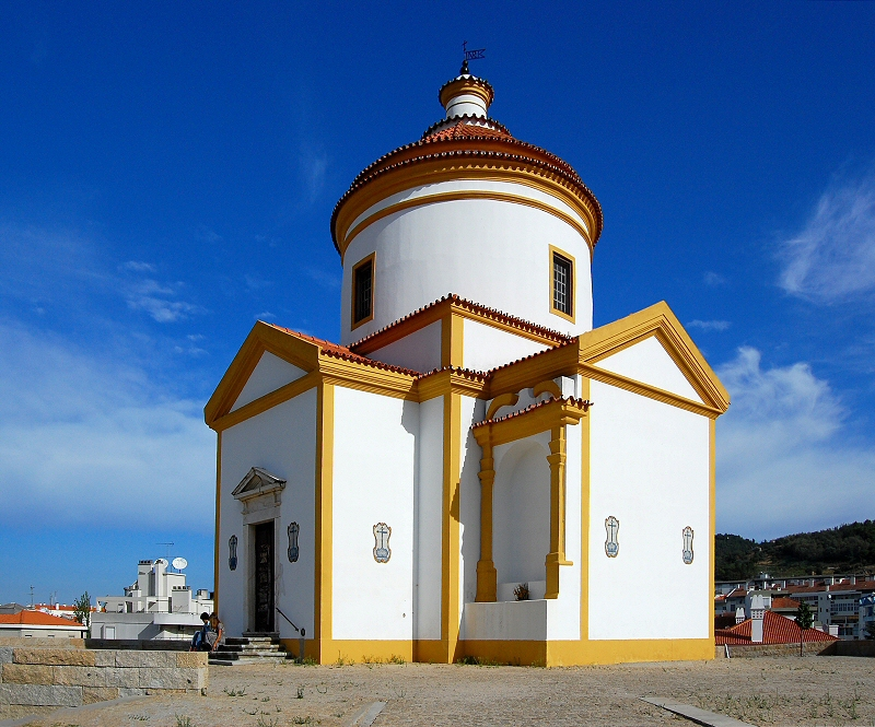 Portalegre_Municipality